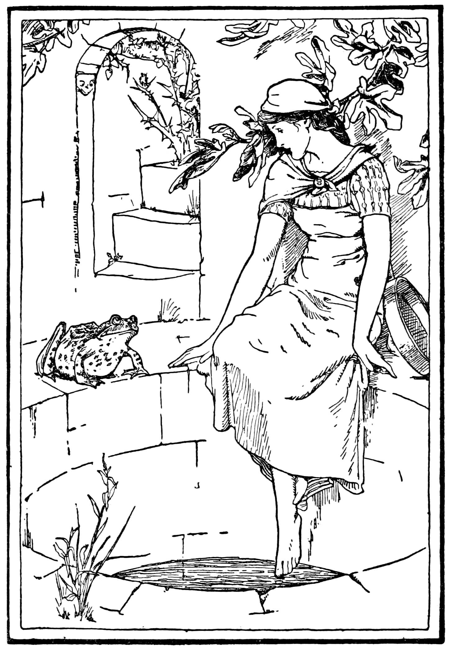 illustration from a book of fairy tales, the removed caption was "THE WELL OF THE WORLD'S END."